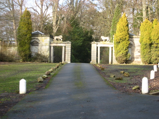 The Lion Gate At Preston Hall near Pathhead in Midlothian.